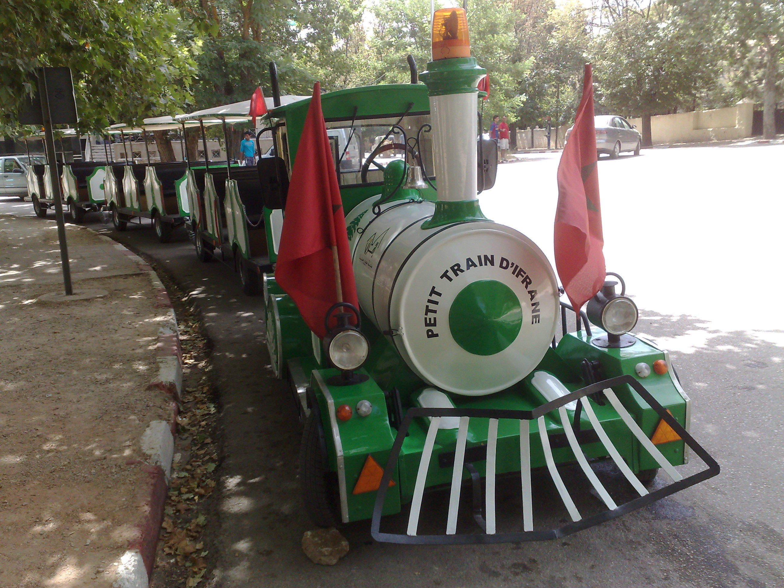 Petit train touristique d'Ifrane